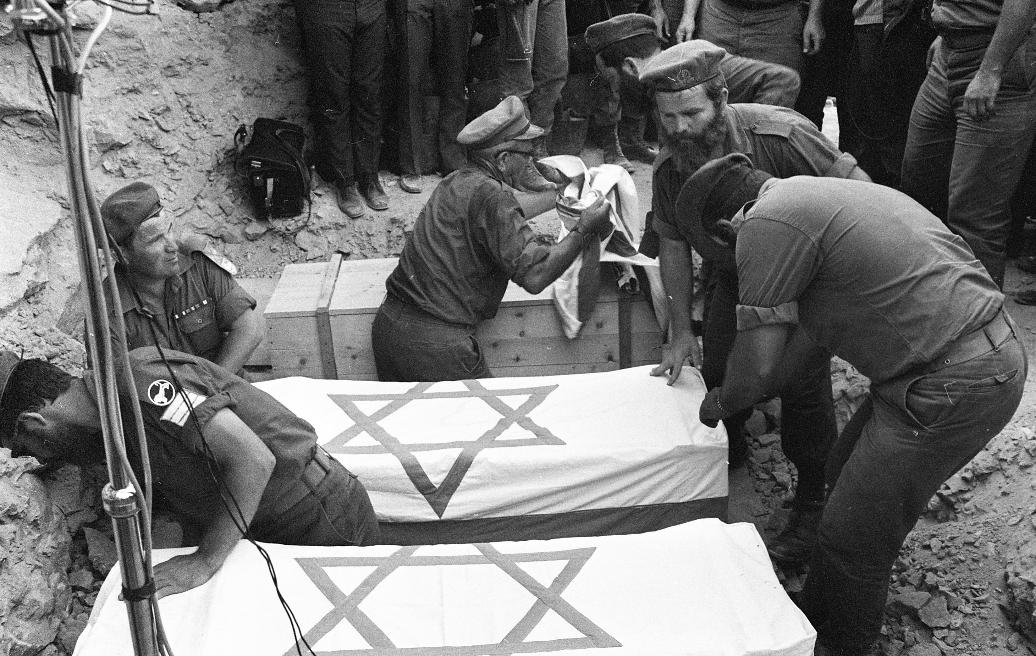 Funeral for 27 skeletons found in archaeological digs in Masada. A Military State Ceremony.